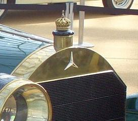 Author:Luc106 Source:This file comes directly from another Commons picture, whose name is File:Mercedes Kardanwagen Typ 14 Ferdinand I von Bulgarien.JPG